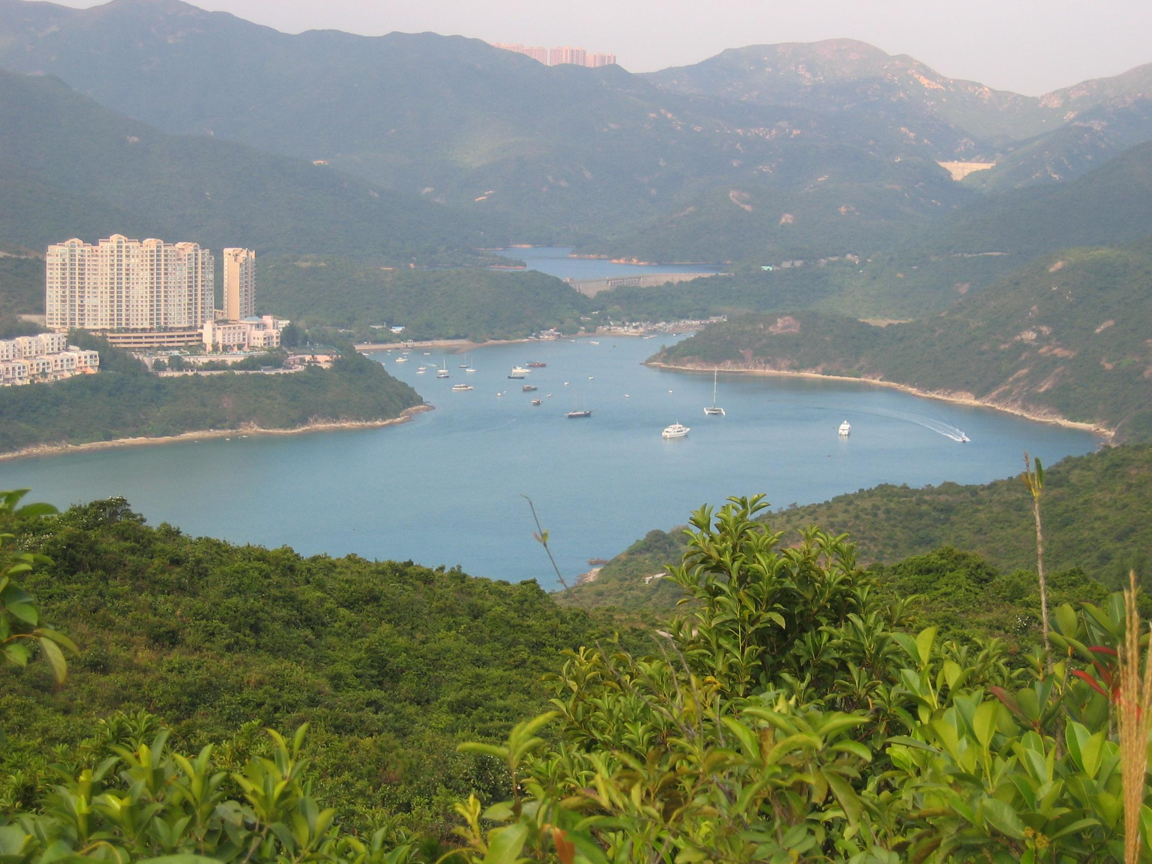 Tai Tam Harbour 大潭港 is a harbour in the innermost part of Tai Tam Bay in Hong Kong. Author is me.